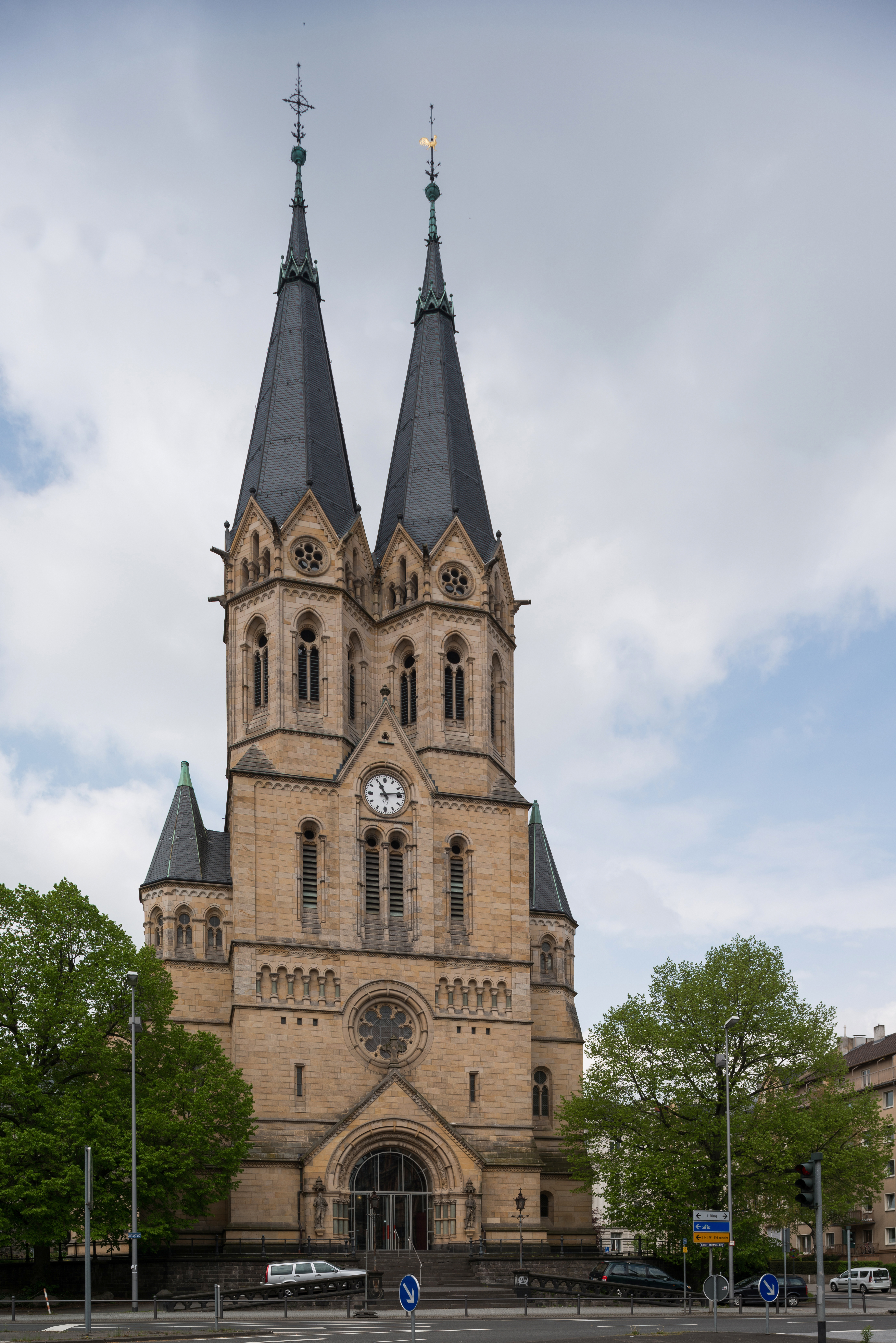 "Ringkirche" in Wiesbaden, Germany, view from the east